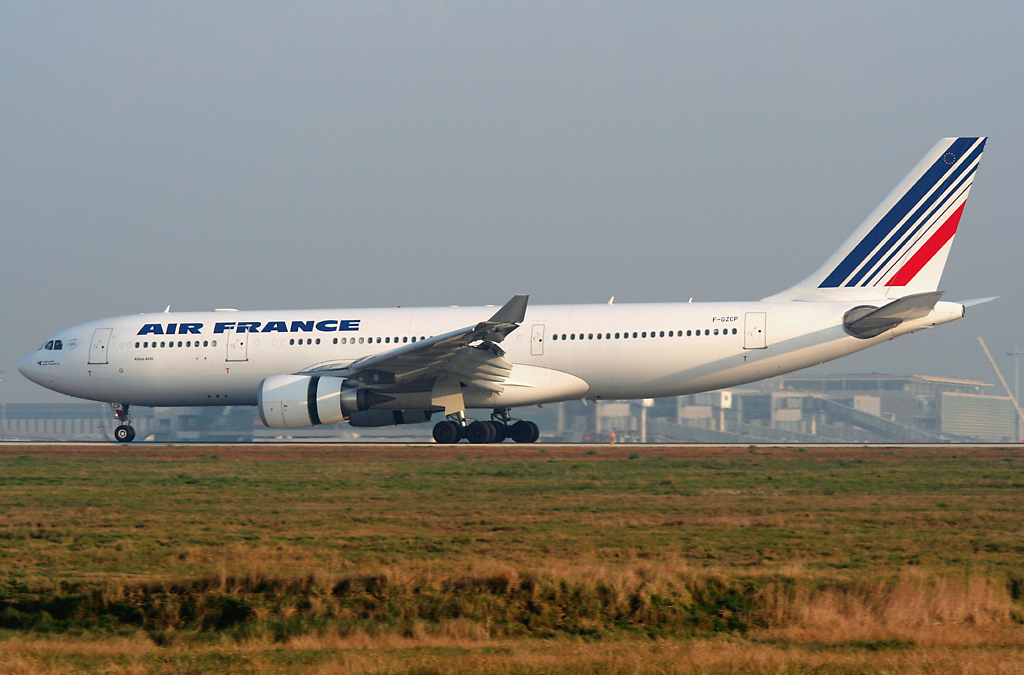 Air France A330-203 F-GZCP lands at Paris-Charles de Gaulle Airport. – The aircraft was destroyed in Air France Flight 447.